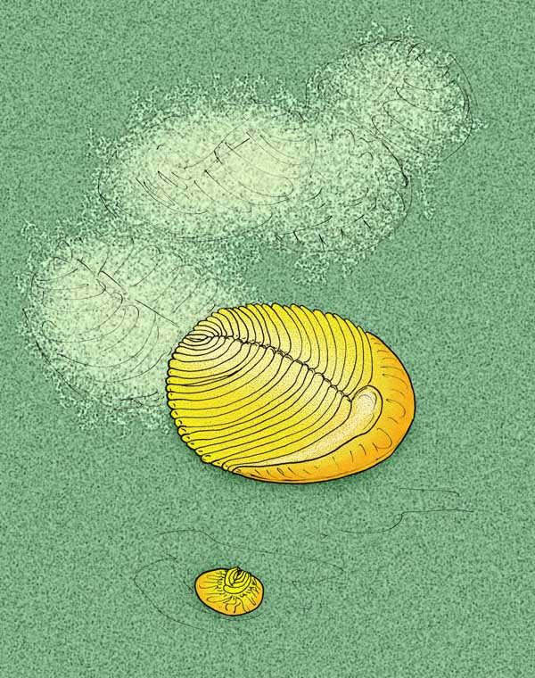 Reconstruction of adult and juvenile of the Precambrian organism Yorgia waggoneri